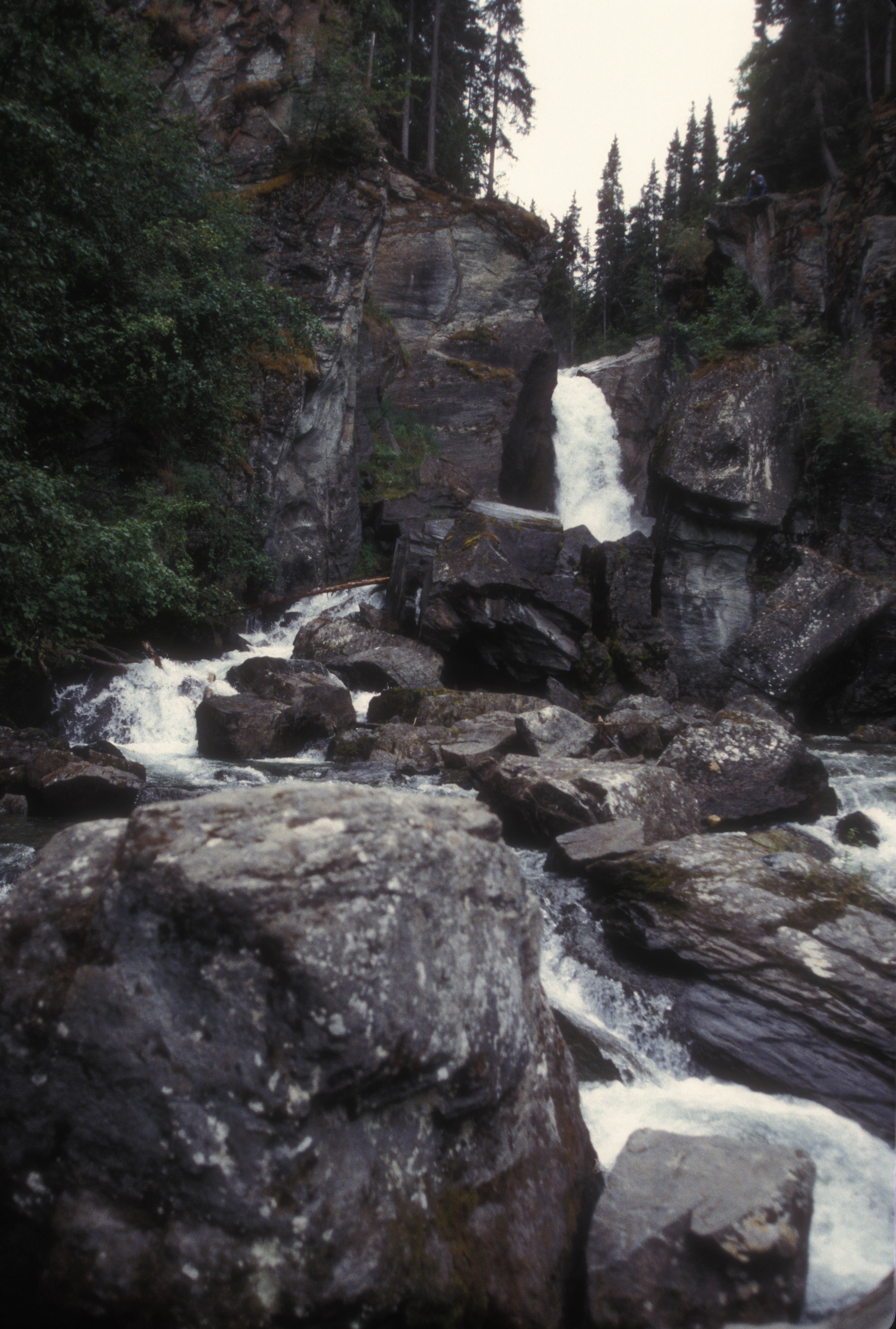 LOCATED IN VALDEZ-CORDOVA DISTRICT; ON LIBERTY CREEK WHICH IS TRIBUTARY OF THE COPPER RIVER